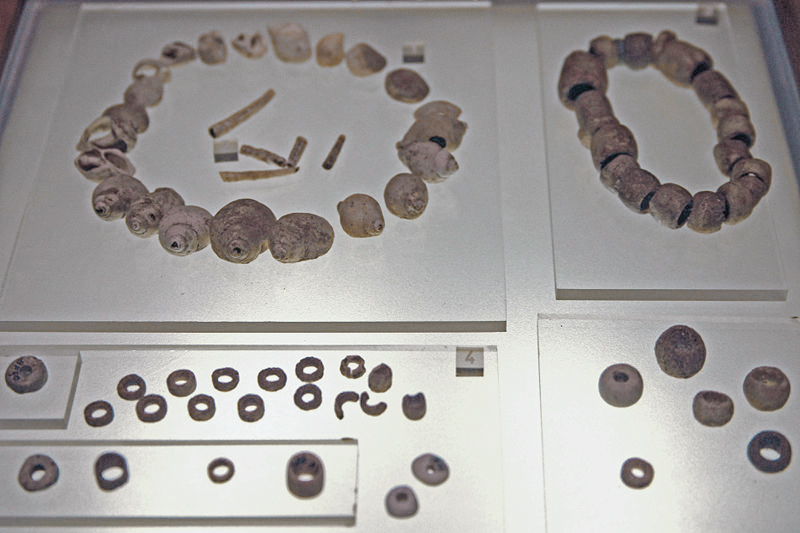 Image under GNU license from German wikipedia there:Bild:NOR1527.JPG sumbmitted 2006 by Joachim Jahnke